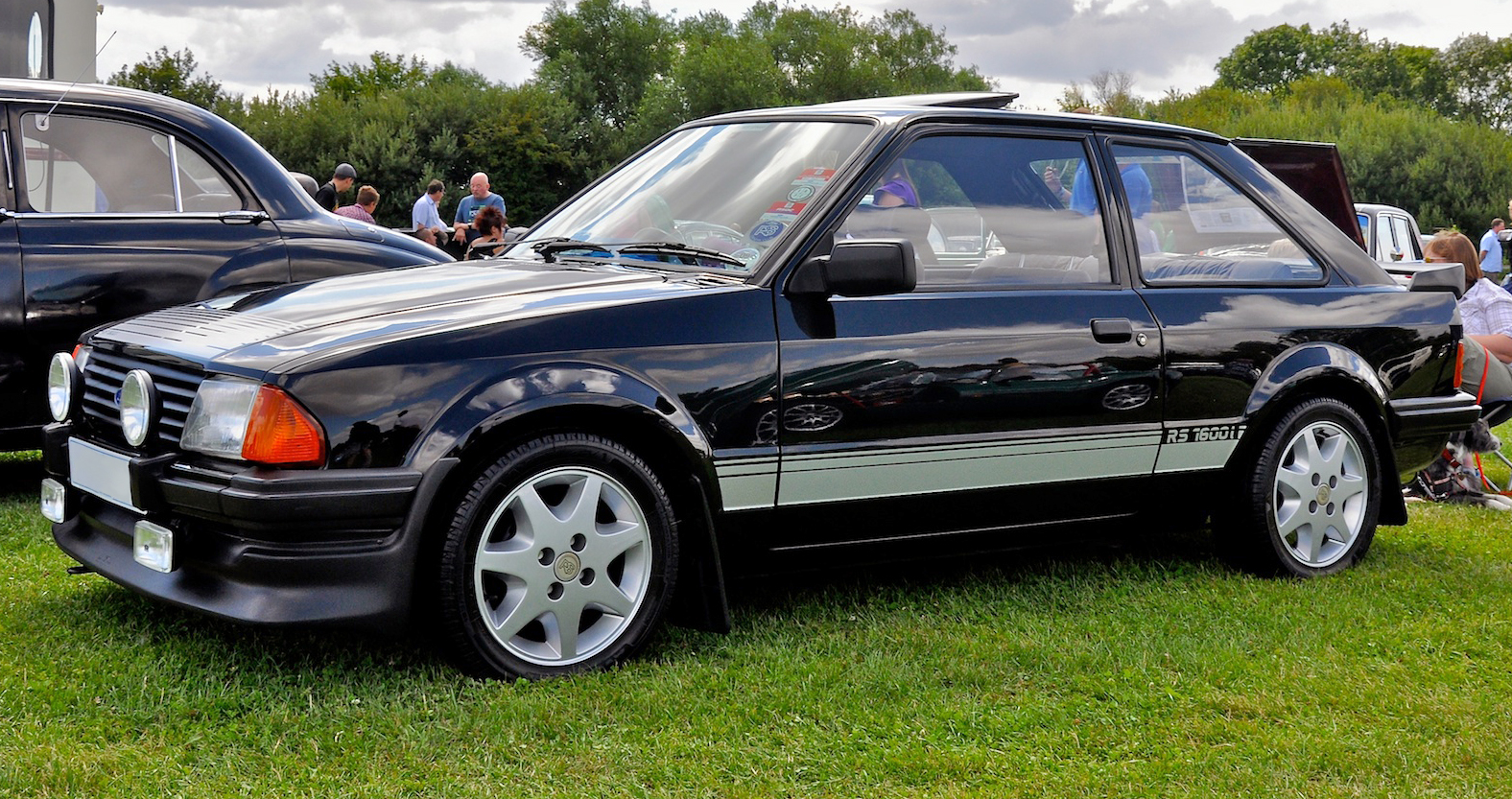 1983 Ford Escort RS 1600i (1597cc)